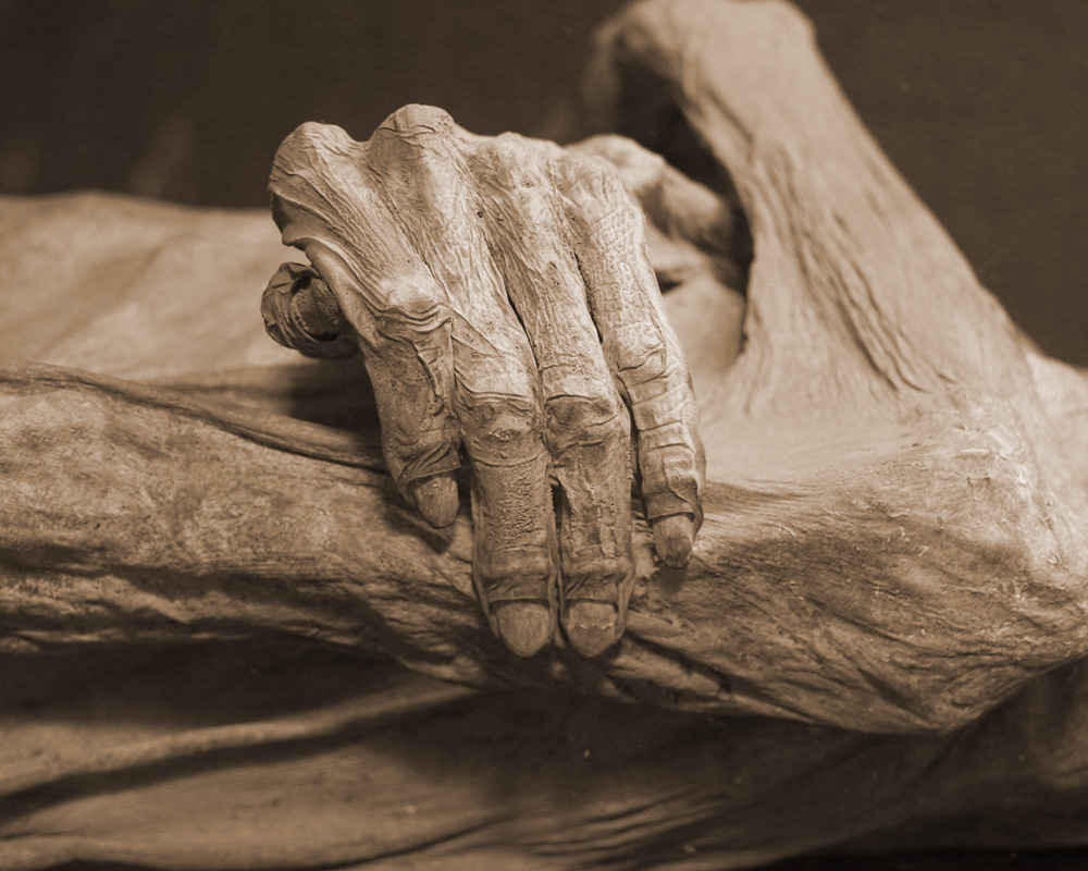 Hand of Guanajuato mummy. Due to weather and soil conditions, bodies tend to dehydrate and mummify in the city of Guanajuato, Mexico. Unclaimed bodies often end up for public exhibit.